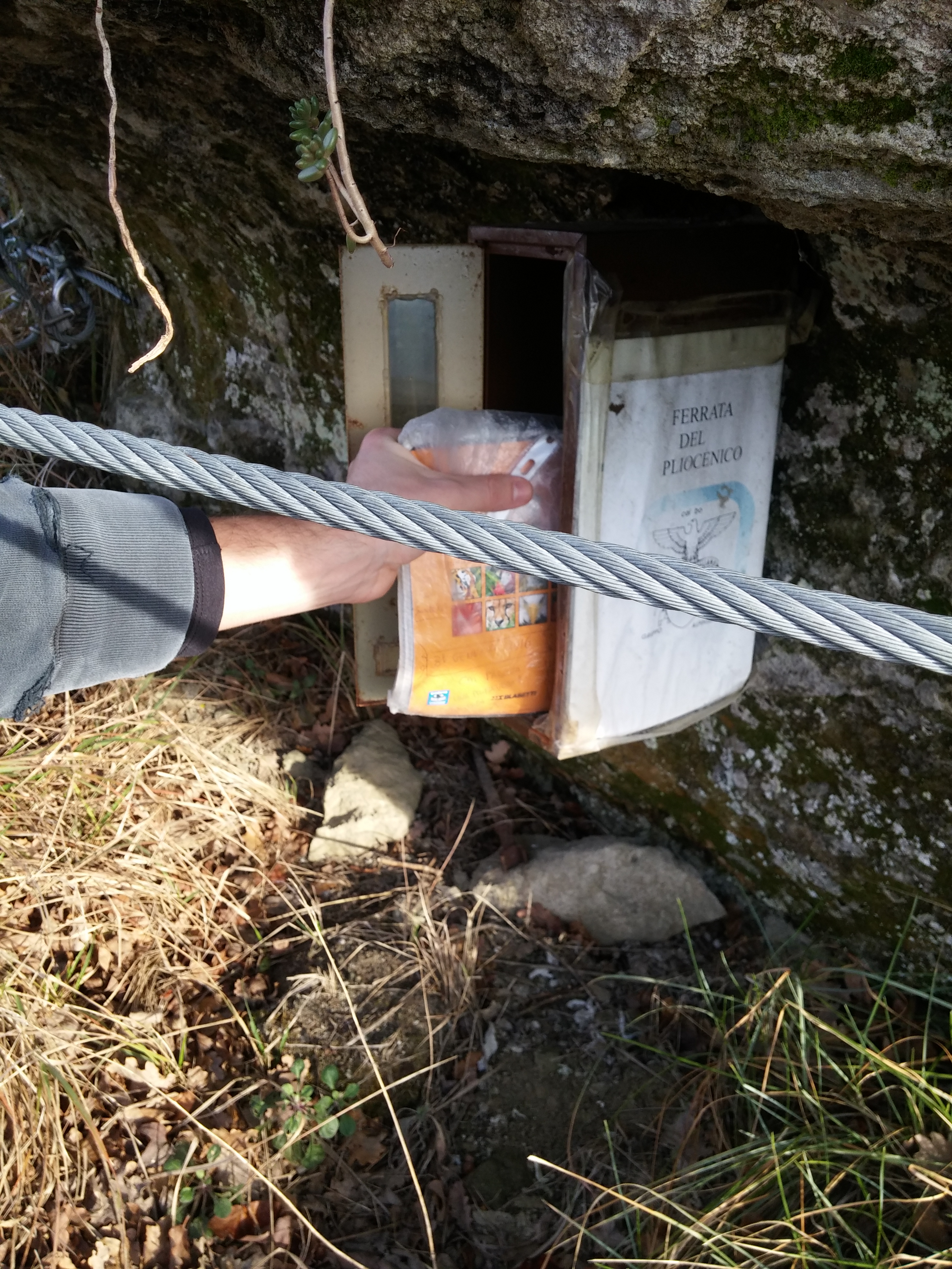 climb log registry